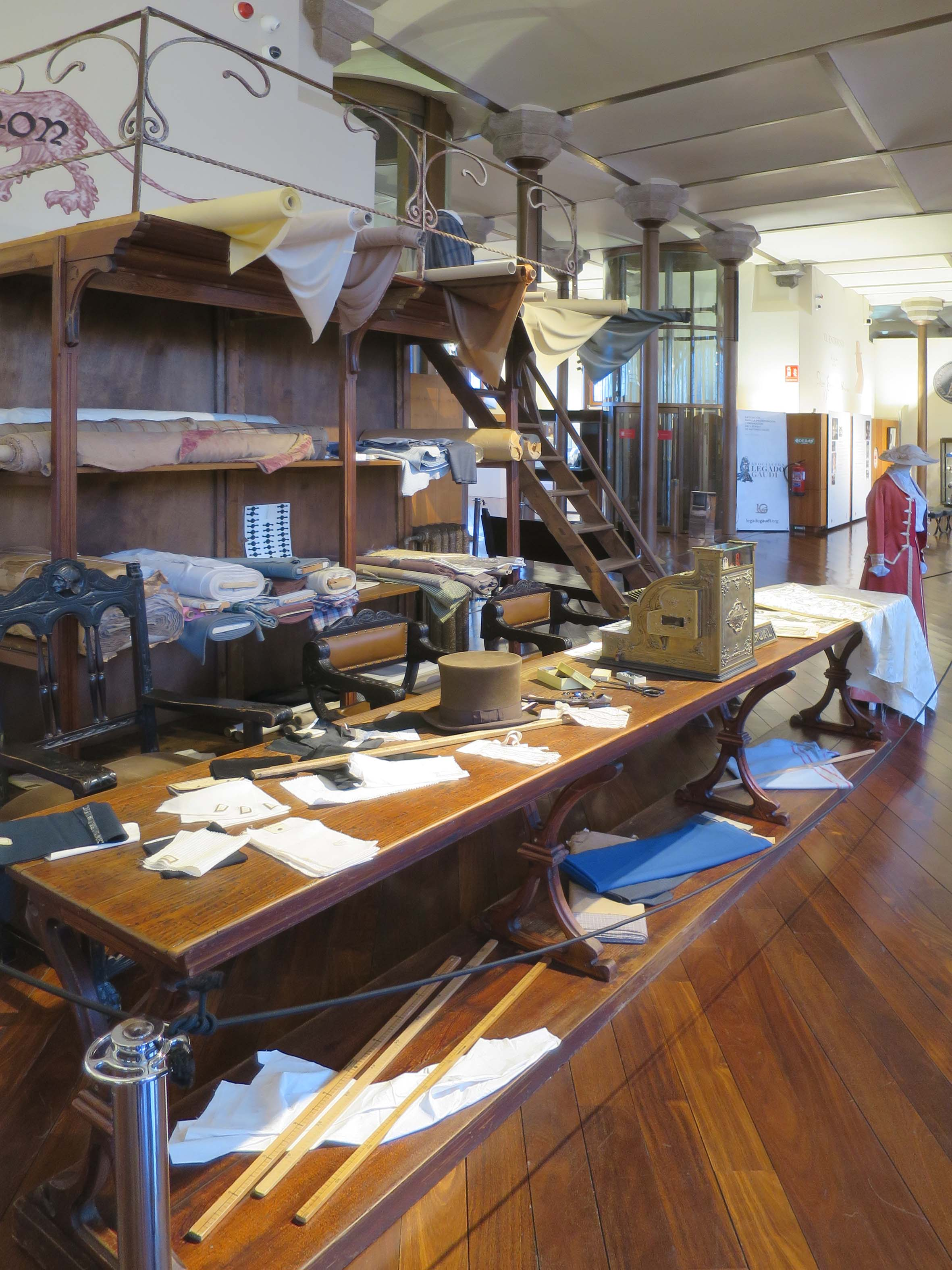 Casa Botines, Exhibition representing the area when the building housed a textile shop